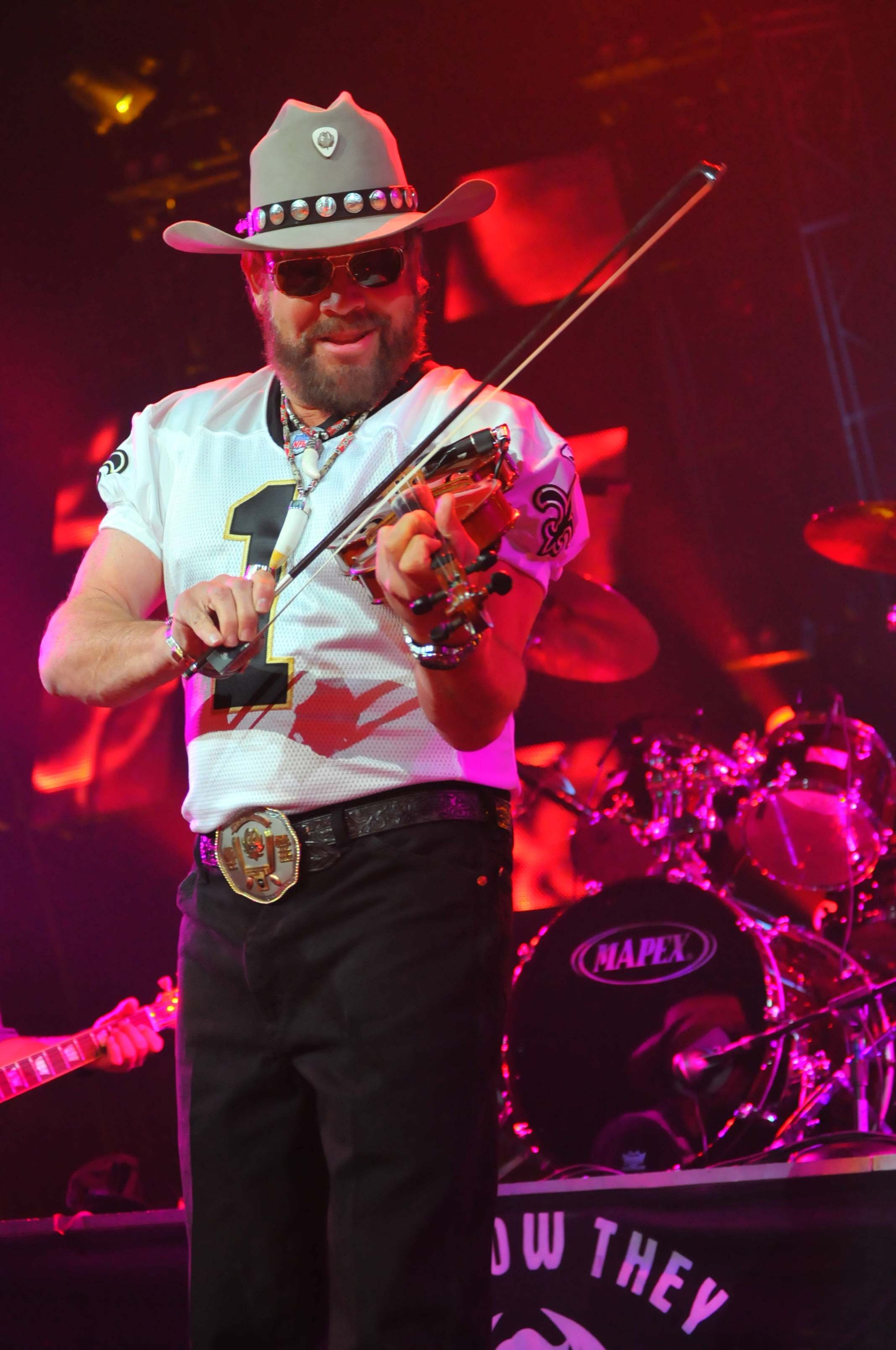 Hank Williams Jr In Concert April 2008